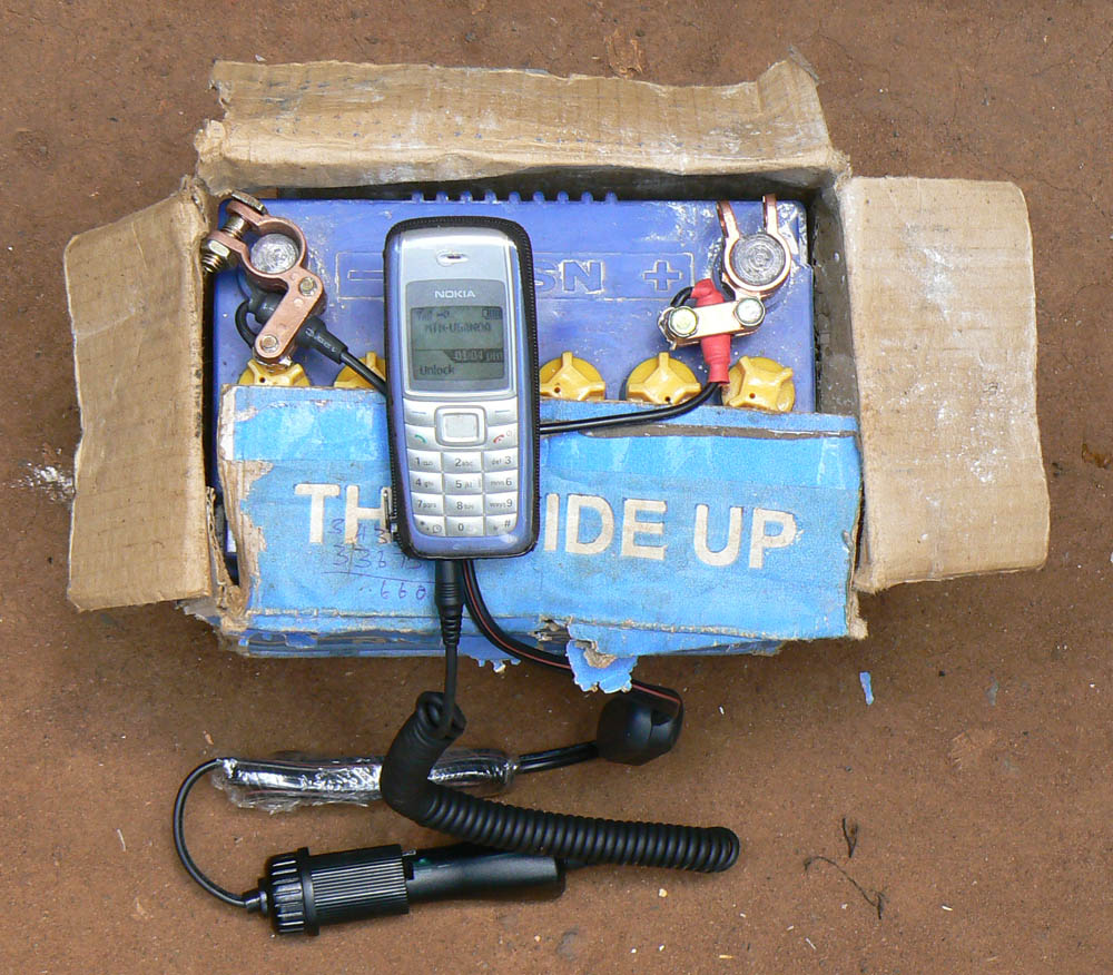 Mobile charging via car battery Originals from: Please cite "Ken Banks, "